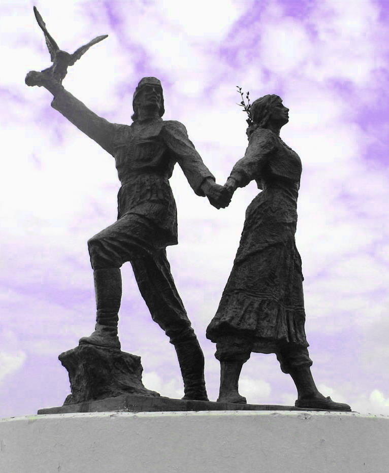 Arhavi, Turkey Own picture, Photographer: Özhan Öztürk from